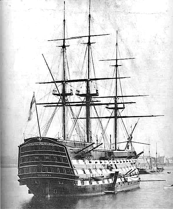 HMS Victory, photographed at Portsmouth in 1884.